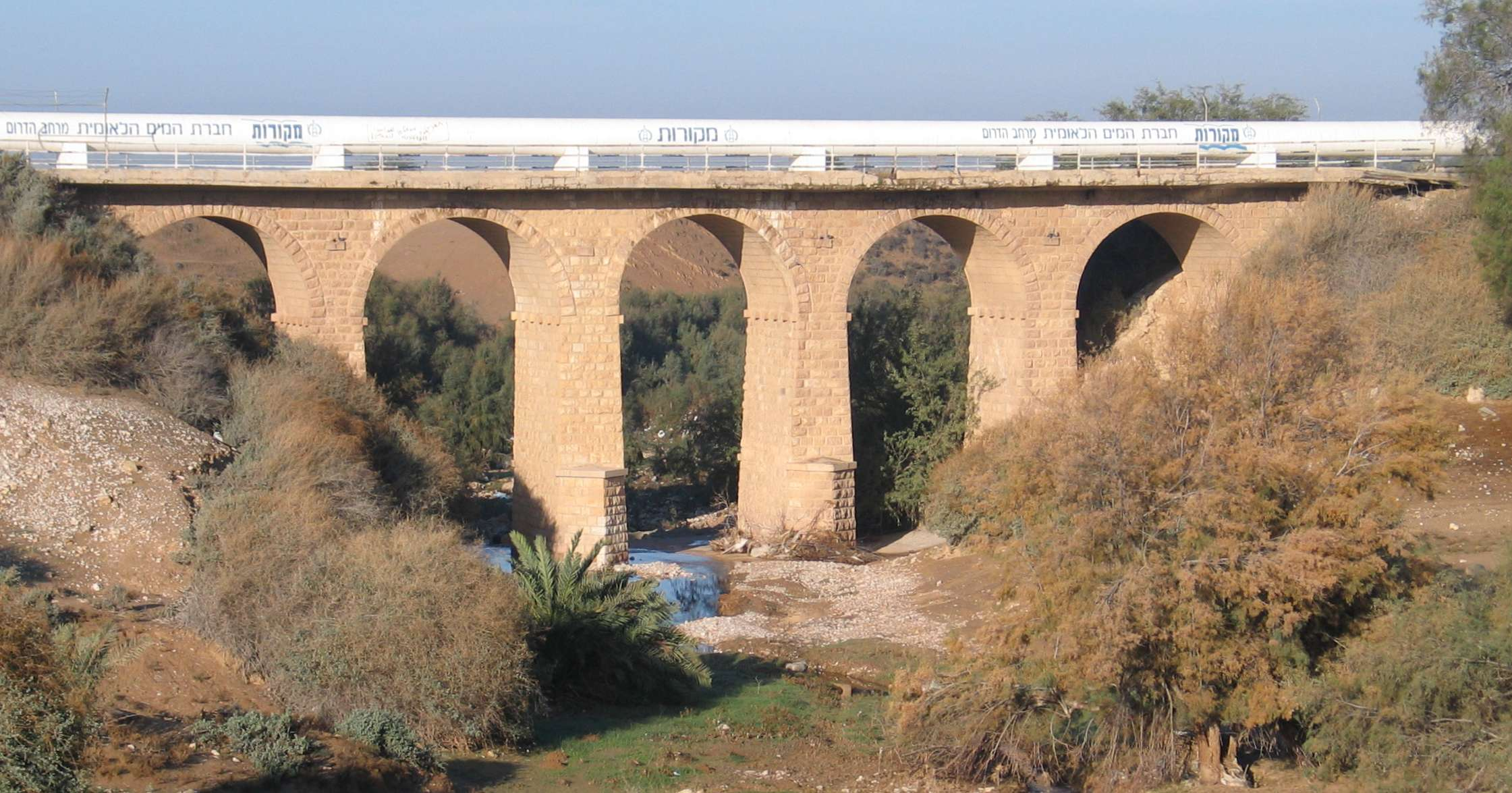 Ottoman bridge over the Patish stream east of Ofakim, Israel.